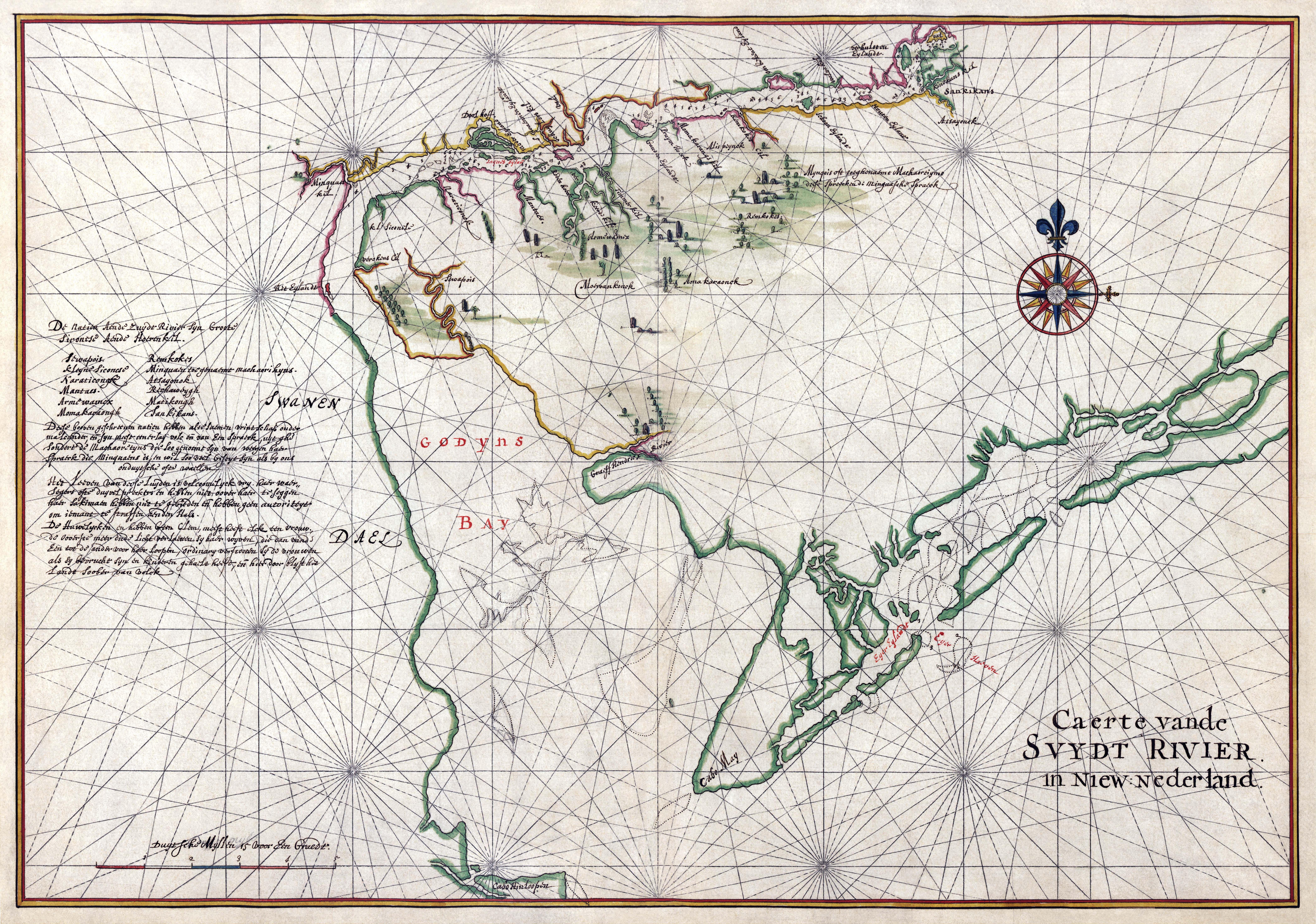 Nautical chart of Zwaanendael ("Swanendael") and Godyn's Bay in New Netherland. Zwaanendael was a patroonship founded by Samuel Godyn, a director of the Dutch West India Company, in 1629. Godyn made his land claim to the West India Company under jurisdiction of the Charter of Freedoms and Exemptions. After a short time, the initial 32 inhabitants were murdered by local Indians and Godyn sold his land back to the West India Company. The West India Company kept the names of the local area, including Godyn's Bay, which eventually became Delaware Bay. Ink and watercolor with pictorial relief. An incomplete amateur translation is as follows, transcribed from User_talk:Massimo_Catarinella#Text_on_Dutch_Map. Italicised sections are untranslated approximations of the text, which is in an old form of Dutch. No guarantee is given as to the accuracy of the translations: The nations on the South River are great Sironise on the Hocrenkil Sewapois.:::Remkokes Little increased:::Minquaentoegenaemt machaorihyns. Naraticonyse:::Atsayonok Mantaes.:::Rechaweygh Armewainox:::Matikongh Momakavaongh:::Sankikans. The nations as written above have old friendships in common en are more one people and one language uyt gho. Without the Machaoretyns which are named like this because of her. Talk to those Minquens isen wants so far. here live of the Luyden is bolcoome Lyck vey. weird where Segers ofte duyirlprickers And don't have anything to say about hatr (nothing to offer).And don't have authority to punish someone at the neck. Gertz Clem, merszhefz ilck een vrouu. De Ooudrsze meer ende licht vor laouen by kaor wyvon, die dan vand's Een toz de and di voor hoor Loopon, ordinary Verftootor . As the women are notorious they dine each other heads, and because of this the land stays without a people.